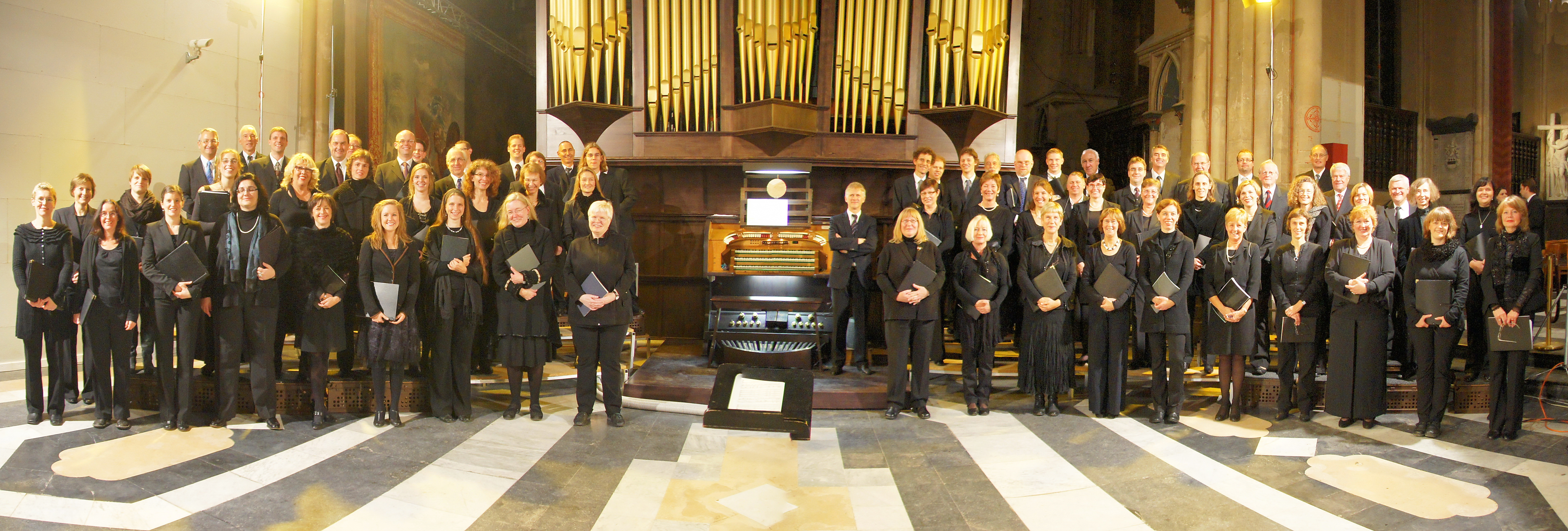 after performing Brahms-Requiem in Salvator-Cathedral, Bruges